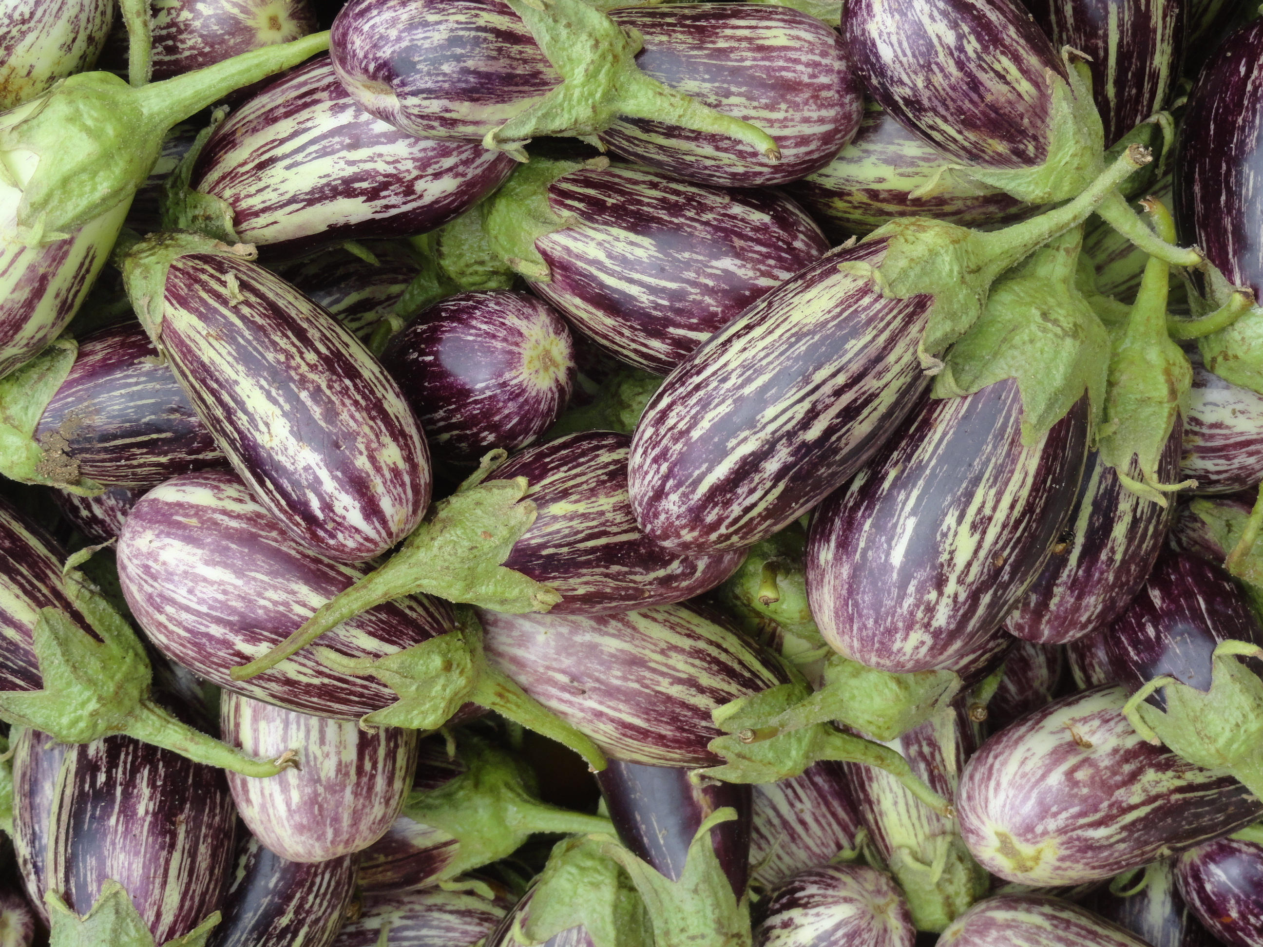 సారల వంకాయలు